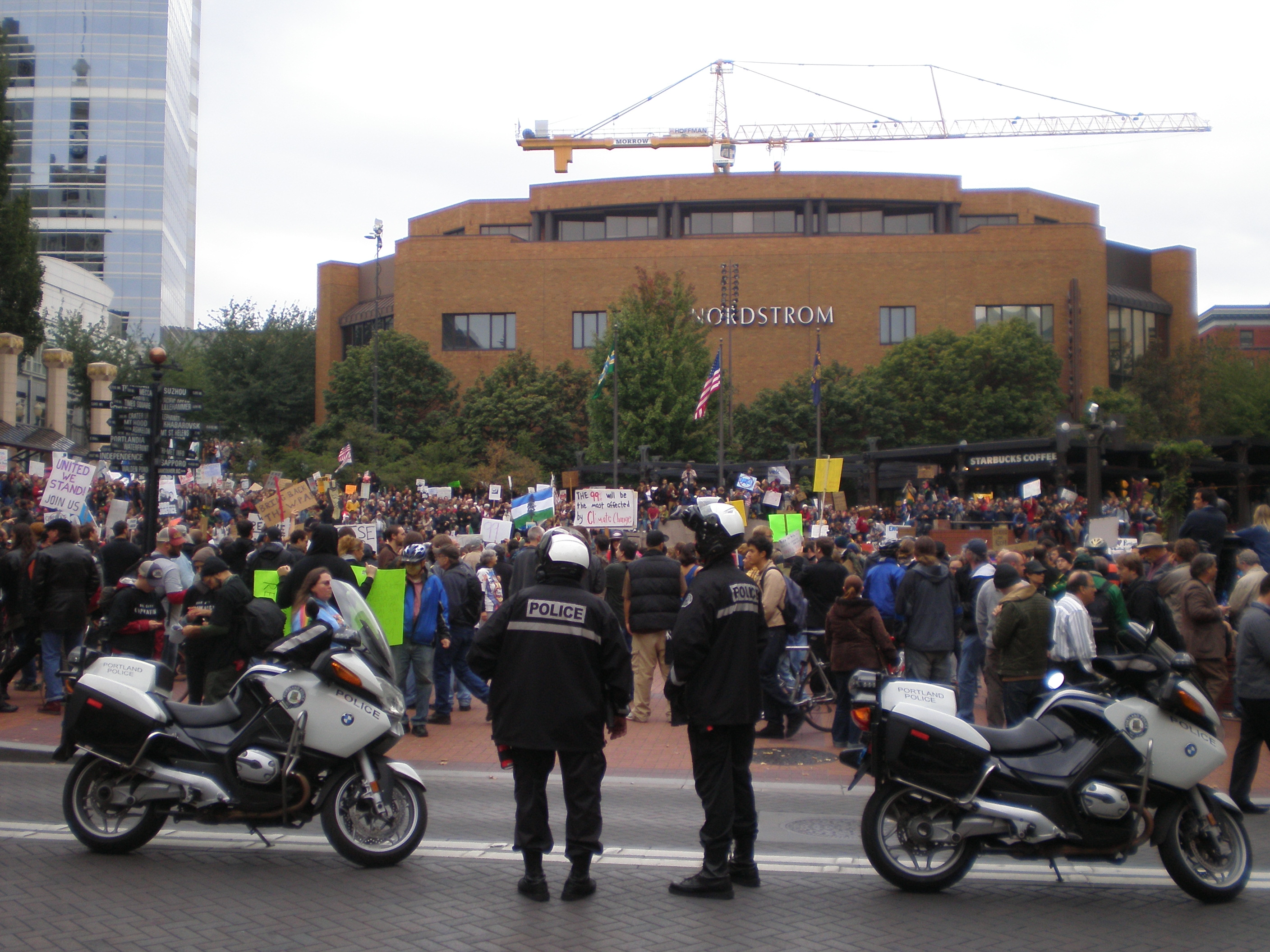 Occupy Portland protest at Pioneer Courthouse Square in downtown Portland, Oregon on October 6, 2011